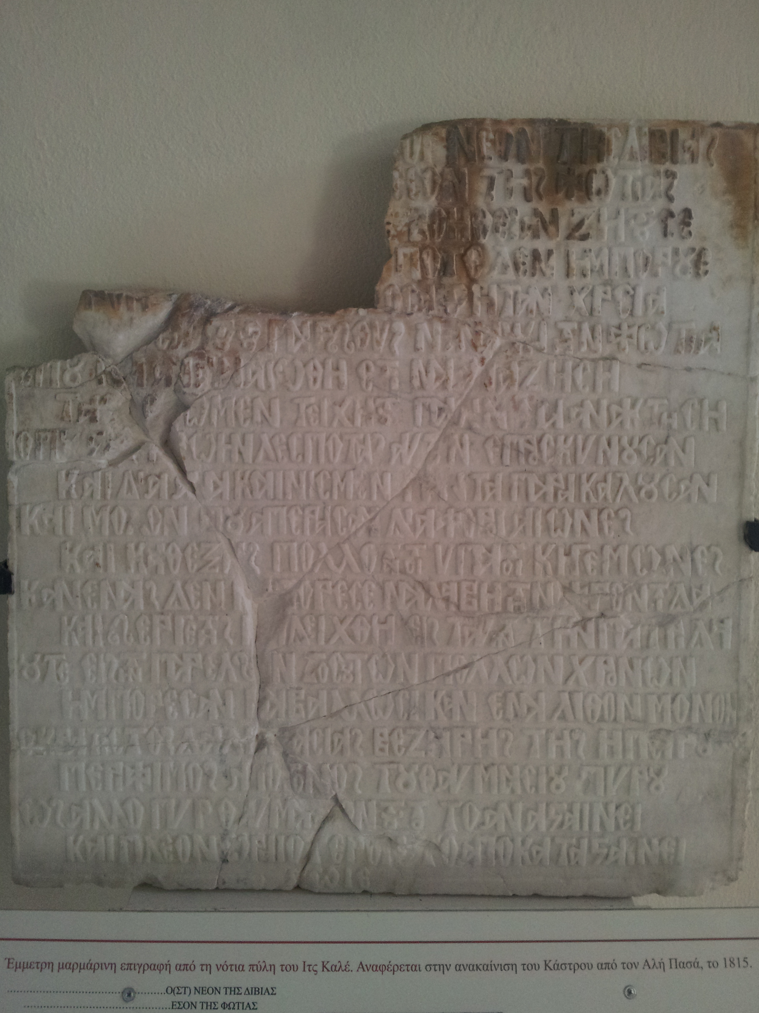 Inscription in Greek from the southern gate of Its Kale, commemorating the rebuilding of the fortress under Ali Pasha, 1815